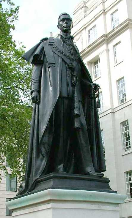 George VI of the United Kingdom - Statue by William McMillan (1955) at Carlton House Terrace - London, England. photo by and copyright Tagishsimon - 31st May 2004